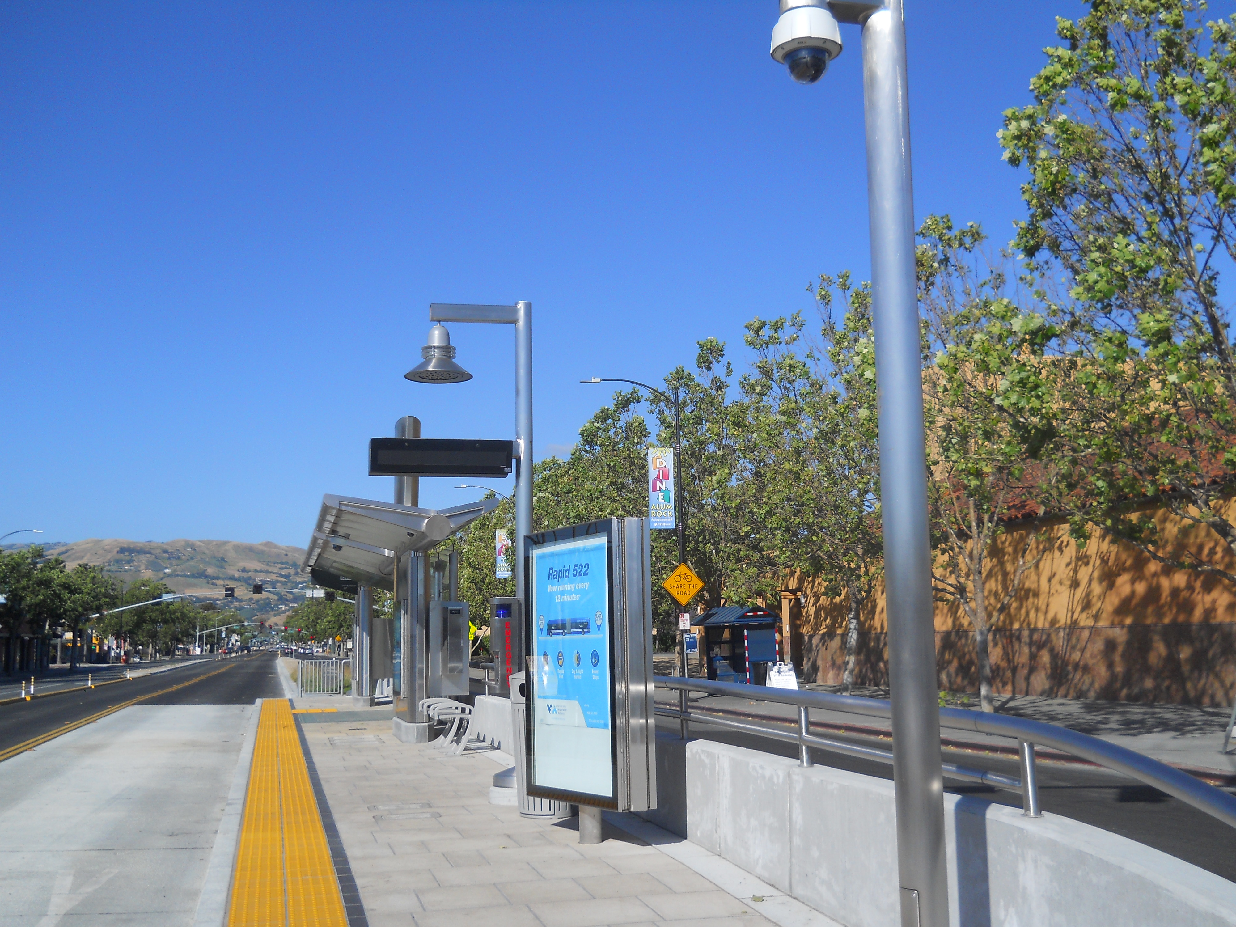 Bus Rapid Transit stop on Alum Rock Ave at King Rd, San Jose, California; older bus stop at roadside.